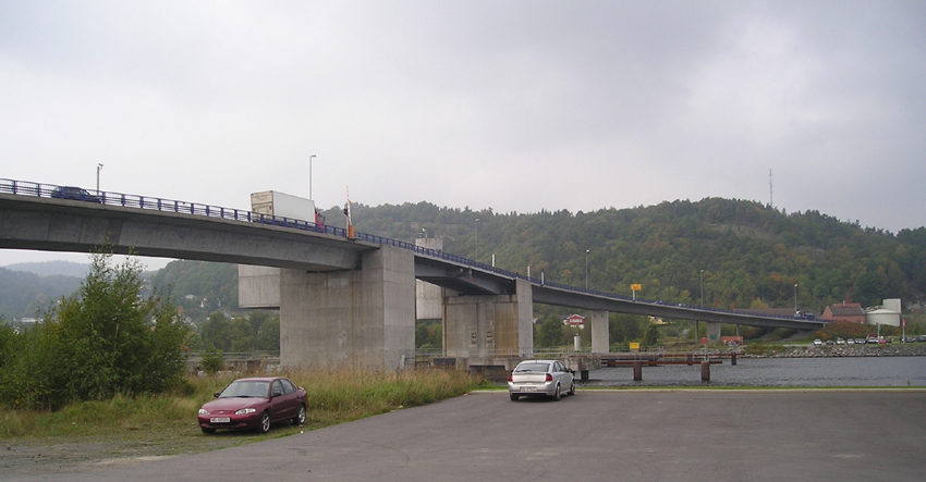 The Frednes bridge, Porsgrunn, Norway